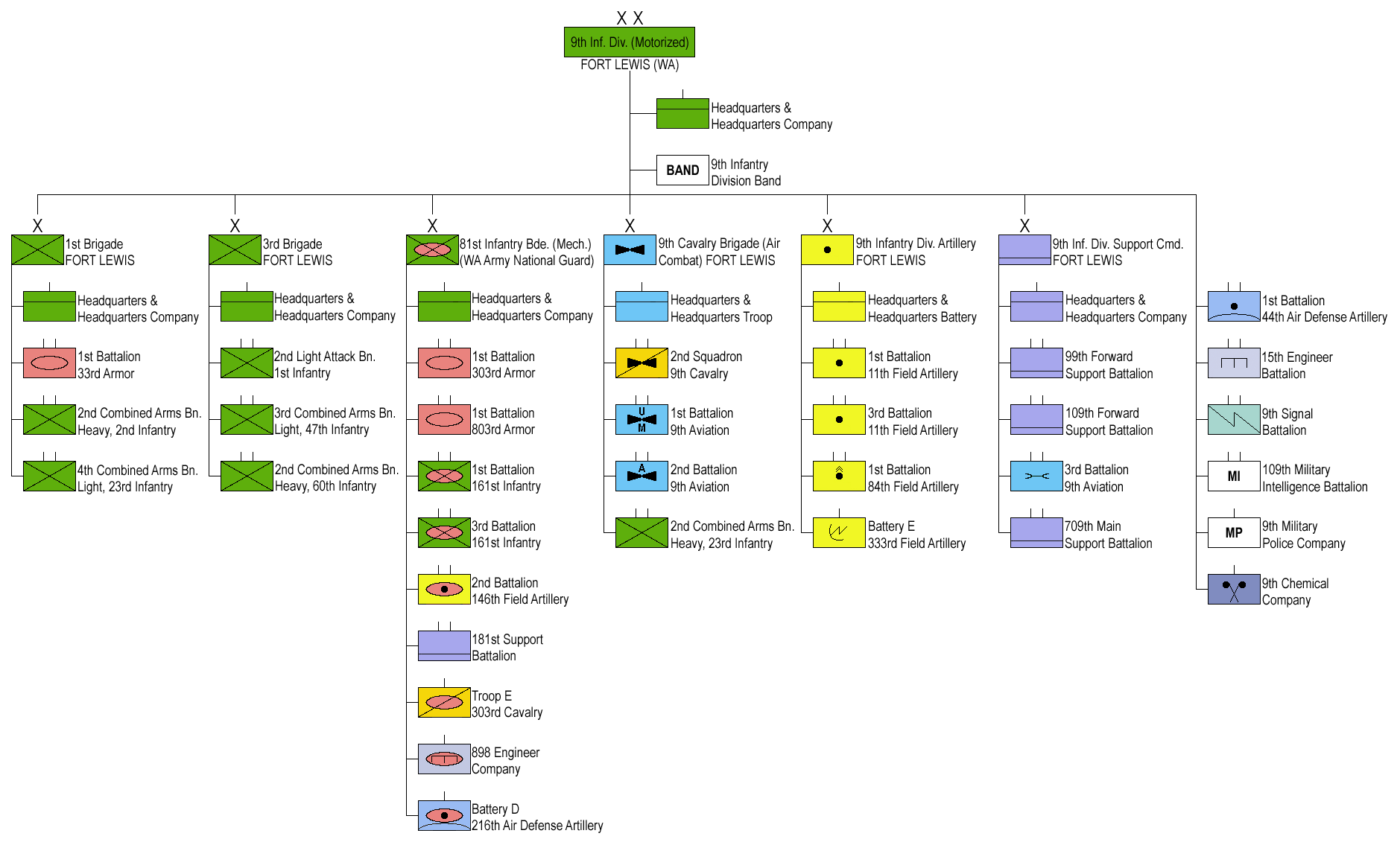 US Army 9th Infantry Division Structure in 1989